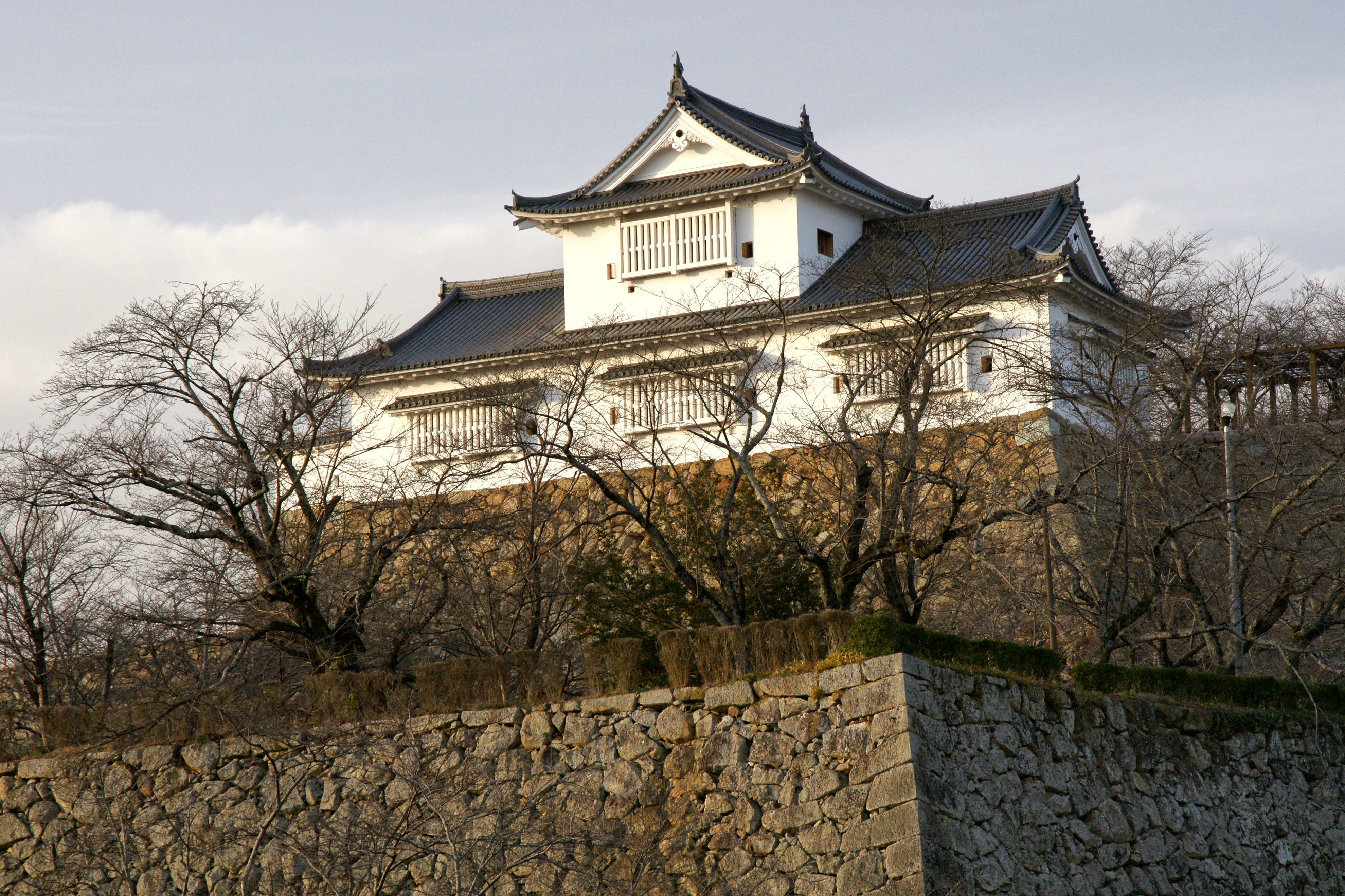 Tsuyama Castle in Tsuyama, Okayama prefecture, Japan.